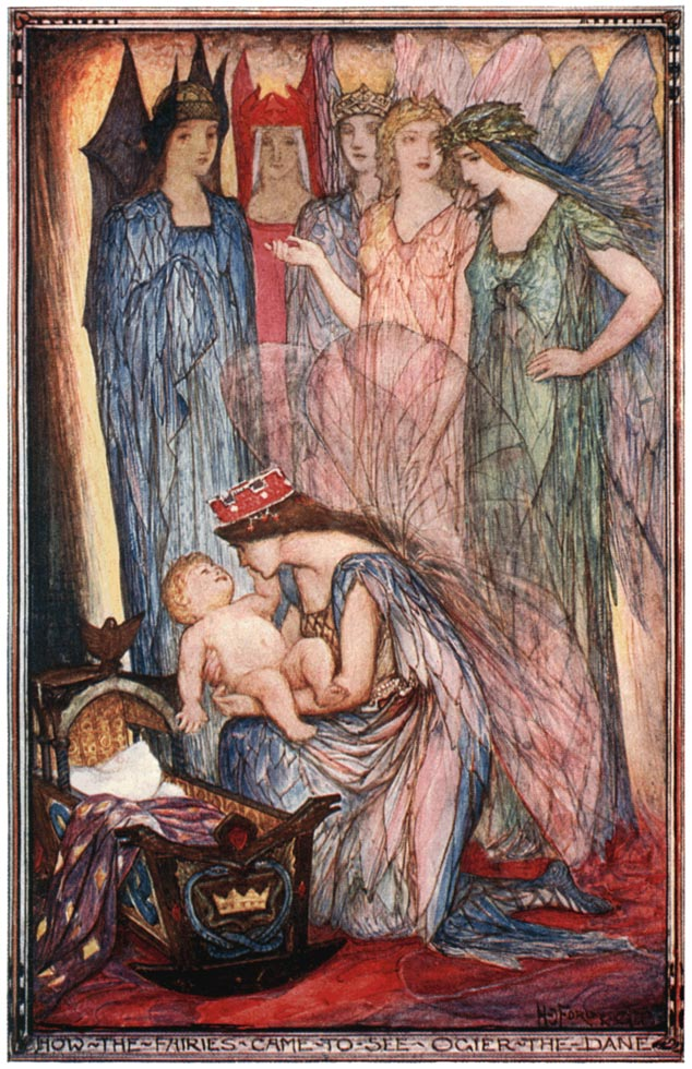 Illustration by H.J. Ford for Andrew Lang's The Red Romance Book, 1921. Caption reads "How the Fairies came to see Ogier the Dane."